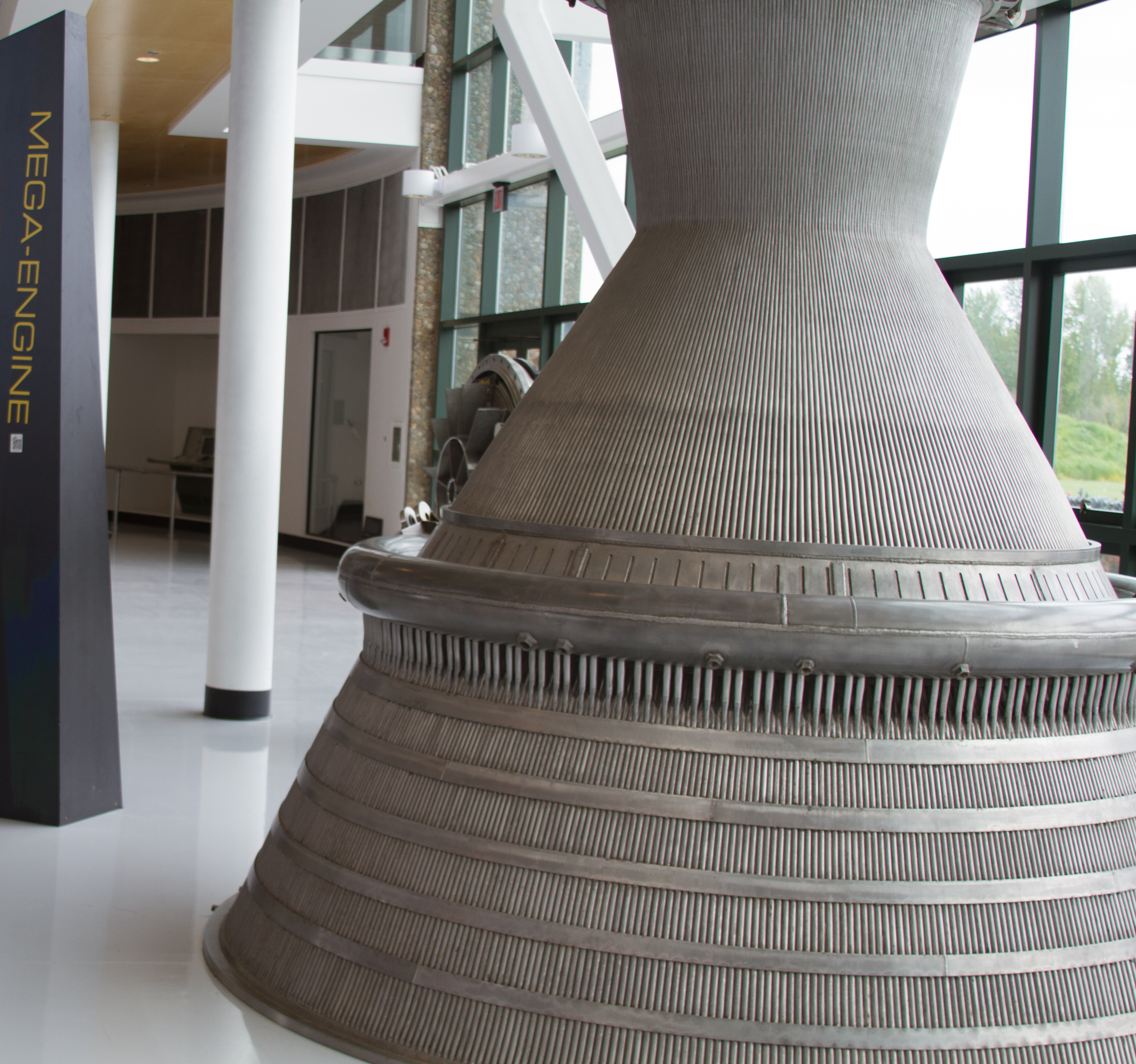 Aerojet M-1 Rocket Engine on display at the Oregon Evergreen Air and Space Museum